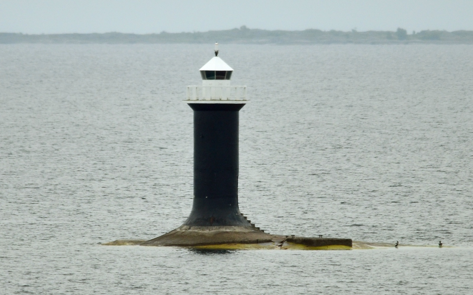 The lighthouse Skiftet (fi. Kihti) between Korpo and Kökar, Finland.